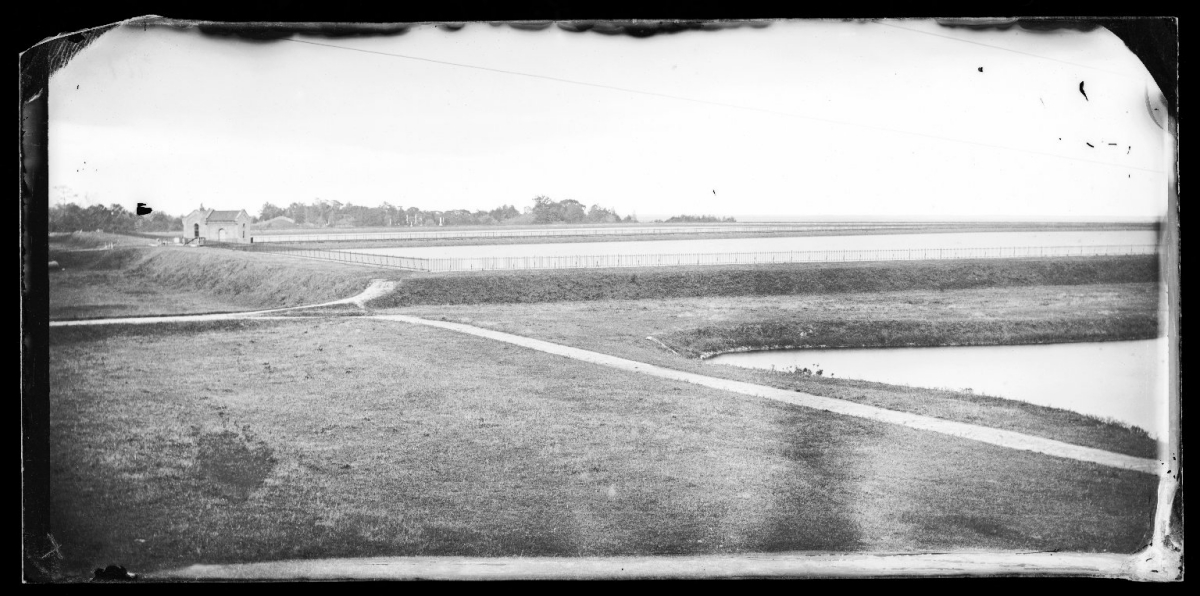 George Bradford Brainerd (American, 1845-1887). Ridgewood Reservoir, Brooklyn, ca. 1872-1887. Wet-collodion negative. Prints, Drawings and Photographs. Brooklyn Museum/Brooklyn Public Library, Brooklyn Collection, 1996.164.2-717. (1996.164.2-717_glass_IMLS_SL2.jpg) Thank you, erobey! This image has been geotagged by erobey so Brooklyn could be part of the Historypin launch on July 11, 2011. Want to help? See if you can place any of these images on a map! More about #mapBK